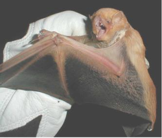 The desert red bat, (Lasiurus blossevillii) also known as the Western Red Bat, is one of many species of bats. This species has been found in North America, southern Canada, Central America and to the northern part of South America.